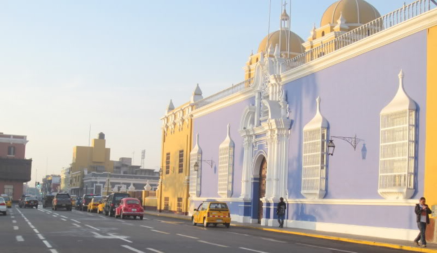 Arzobispado De Trujillo